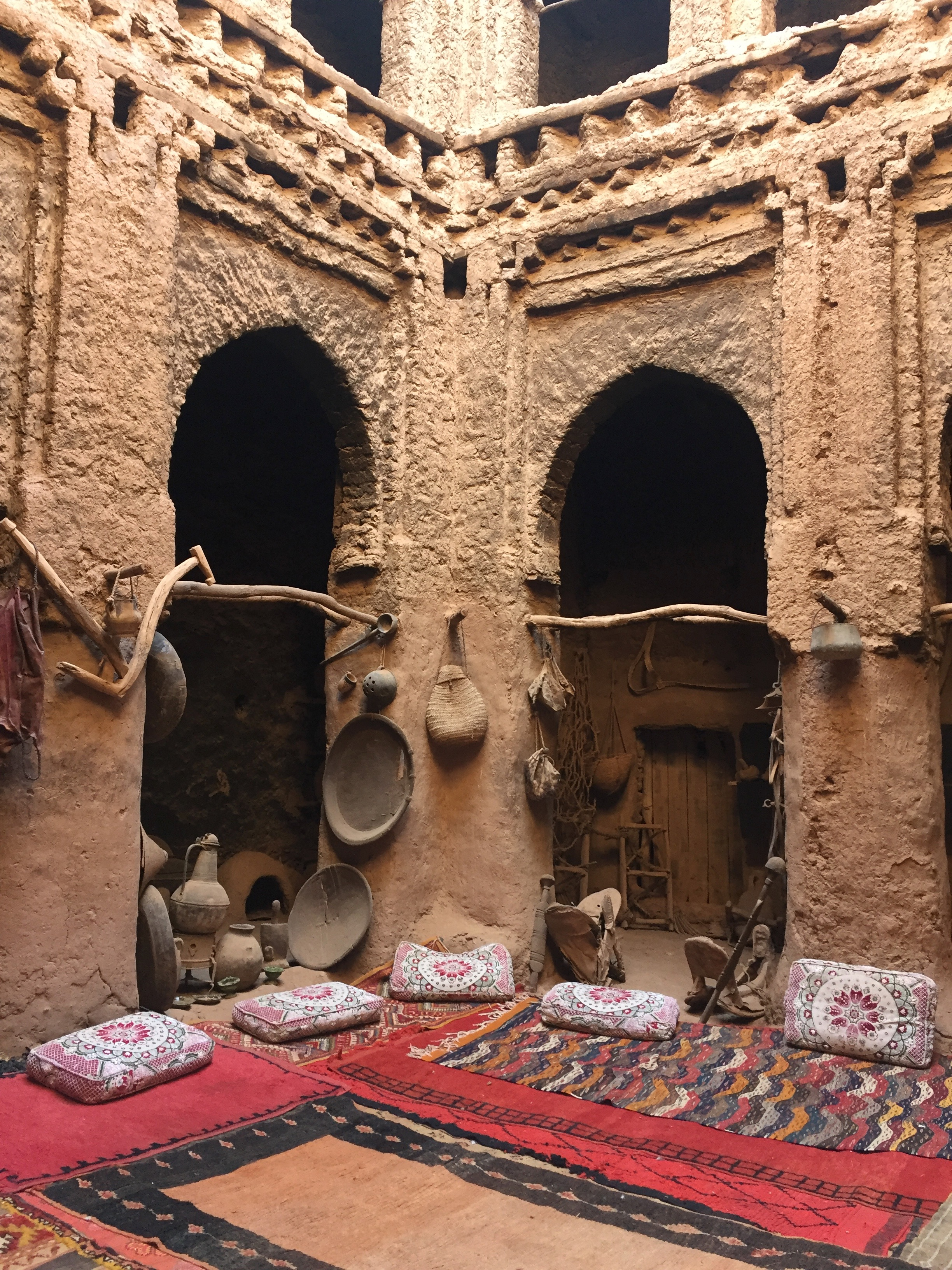 IDPCM Ksar M'Hamid sanae:220117